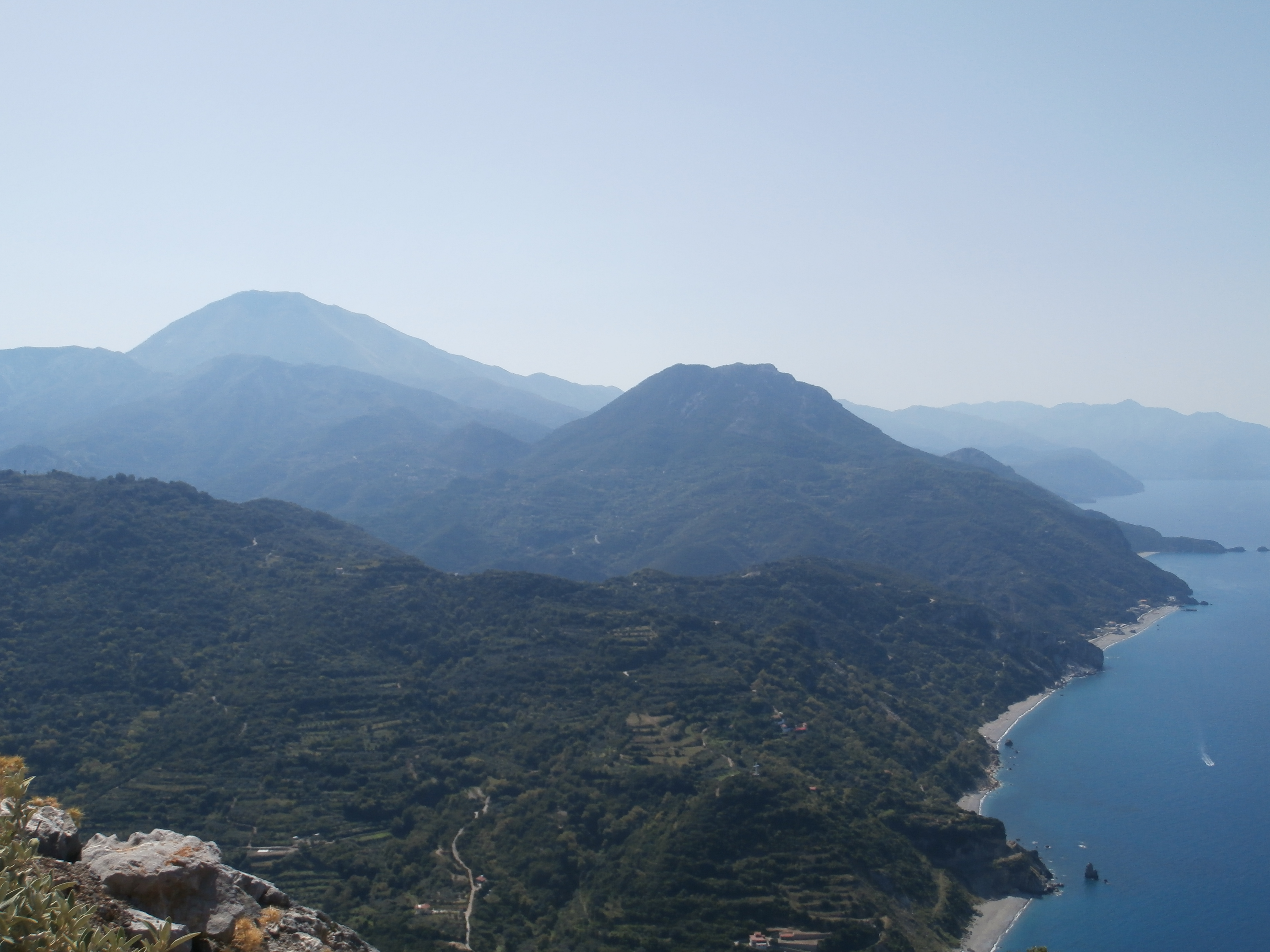 Panoramic picture of the north coasts of central Evia, with visible the tallest mountain of Euboea, mt Dirfi.